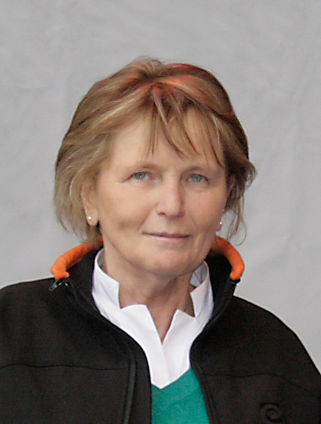 Mathilde Weinandy, mayor of Prüm since 2010